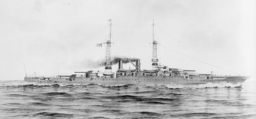 U.S.Battleships Colorado & Class